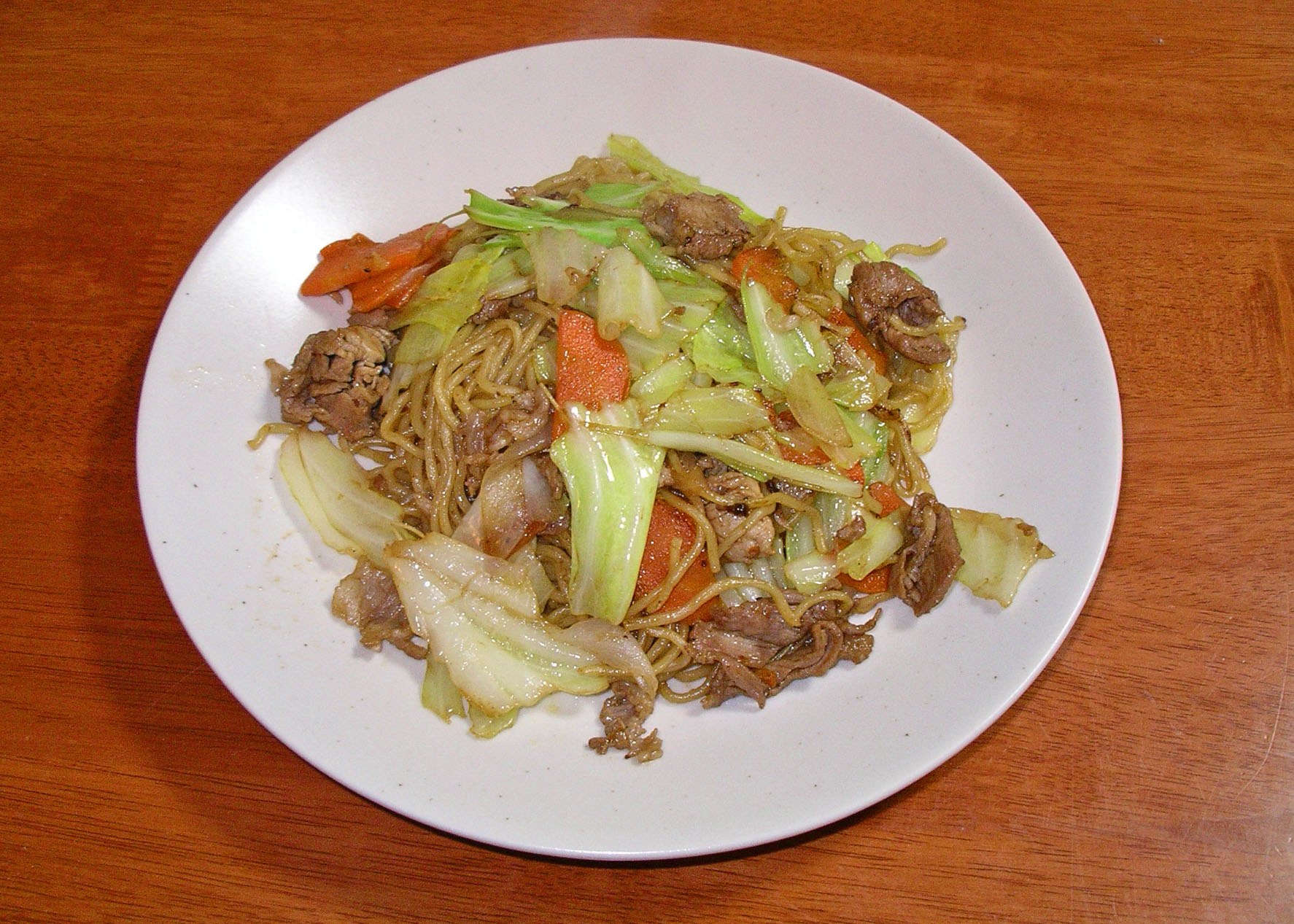 Yakisoba (fried noodles) with pork, onions, cabbage and carrot. The first dinner my husband has cooked for me in ages!晩ご飯